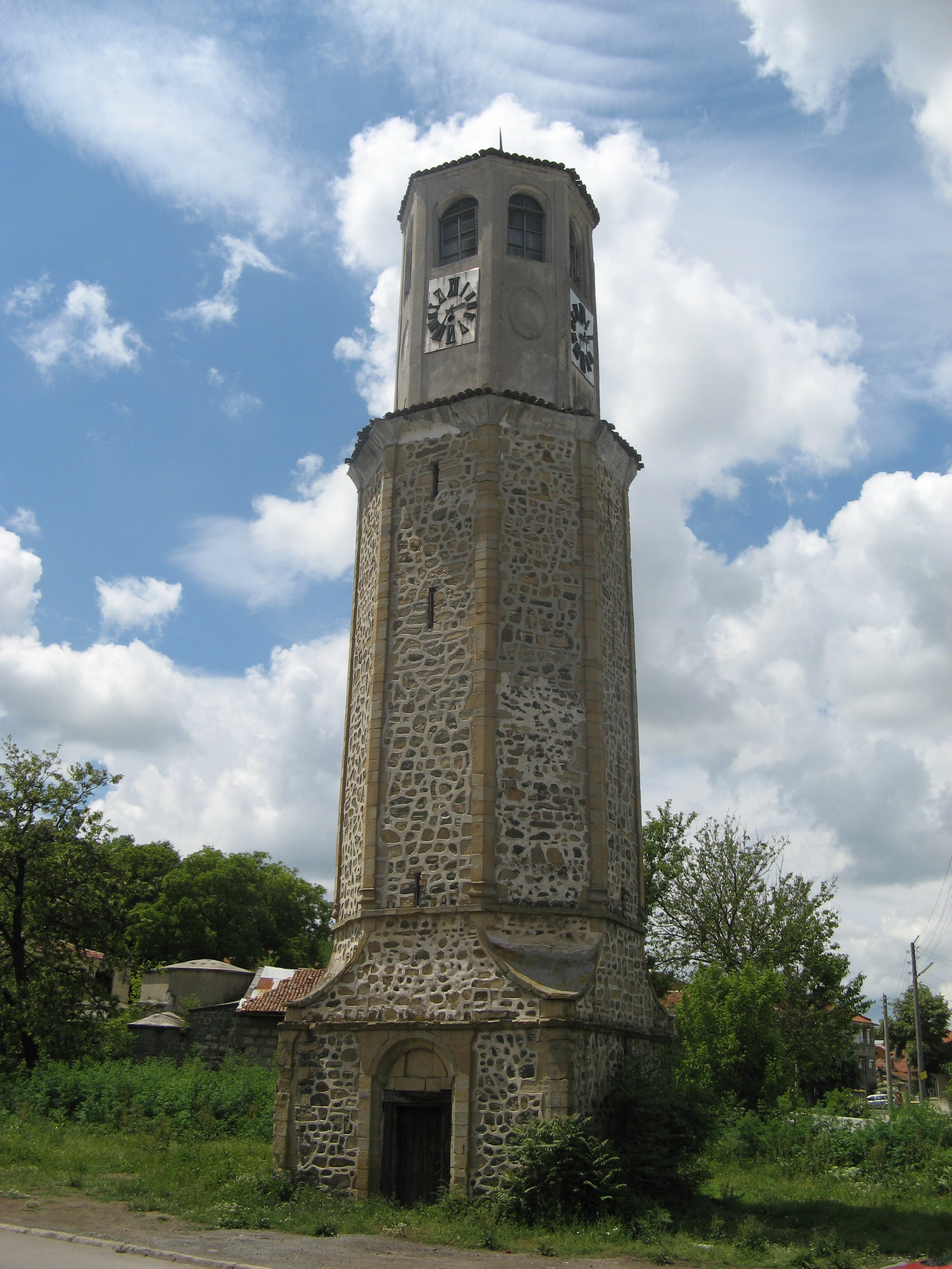 The Clock Tower in Karnobat